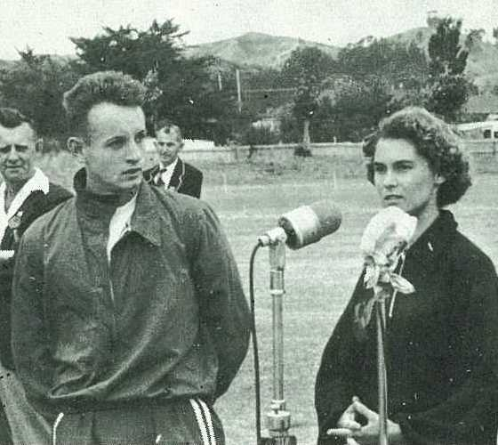 Morrie Rae Auckland sprinter, and Beverley Weigel, also from Auckland. They are seen at the microphone with the Mayor. Mr Barker. Beverly Dawn Edith Weigel (born 16 August 1940), with her first name commonly misspelled as Beverley and since her marriage known as Beverly Robertson, is a New Zealand athlete.